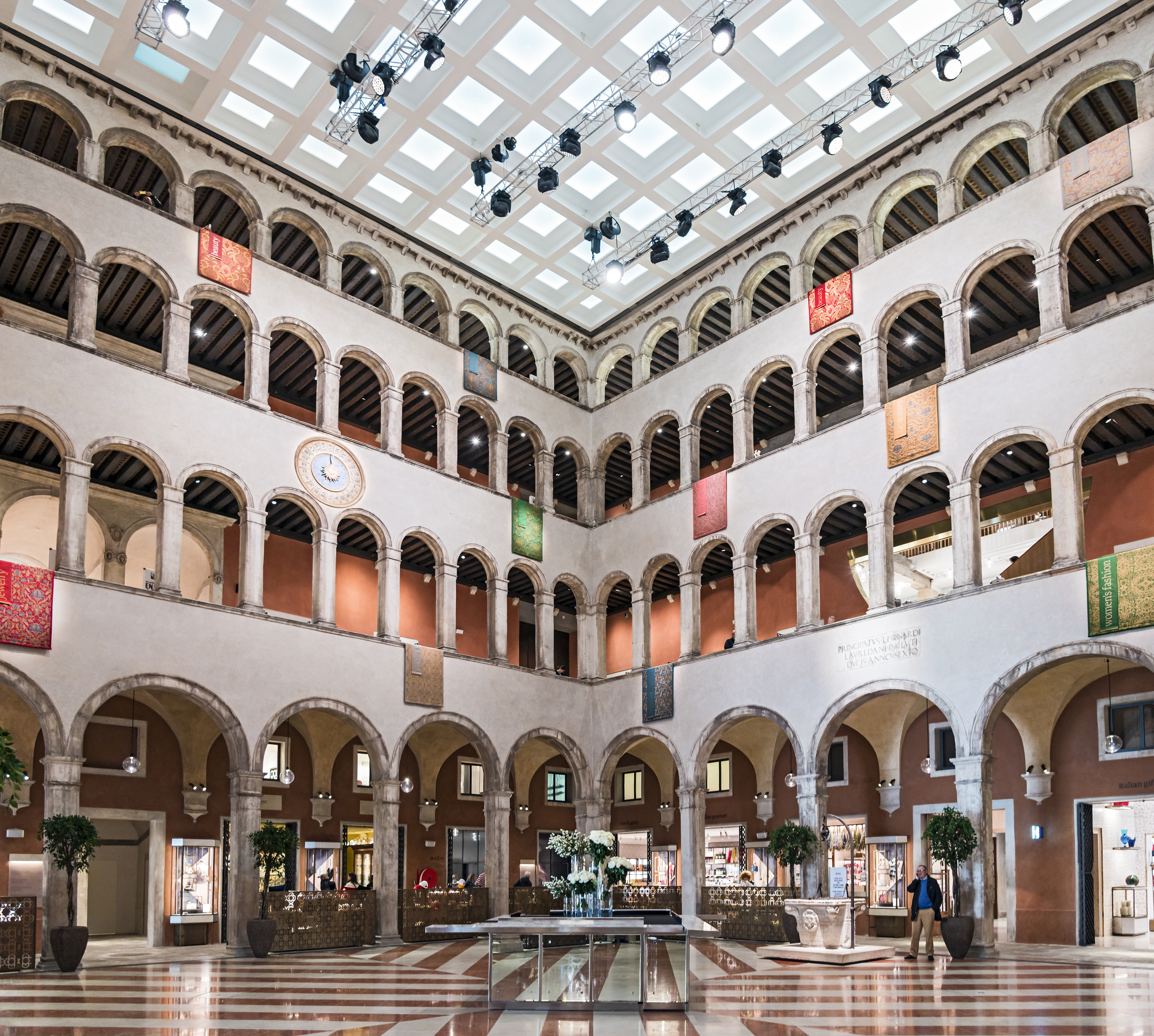 Fondaco dei Tedeschi Venice - View of the covered inner courtyard.